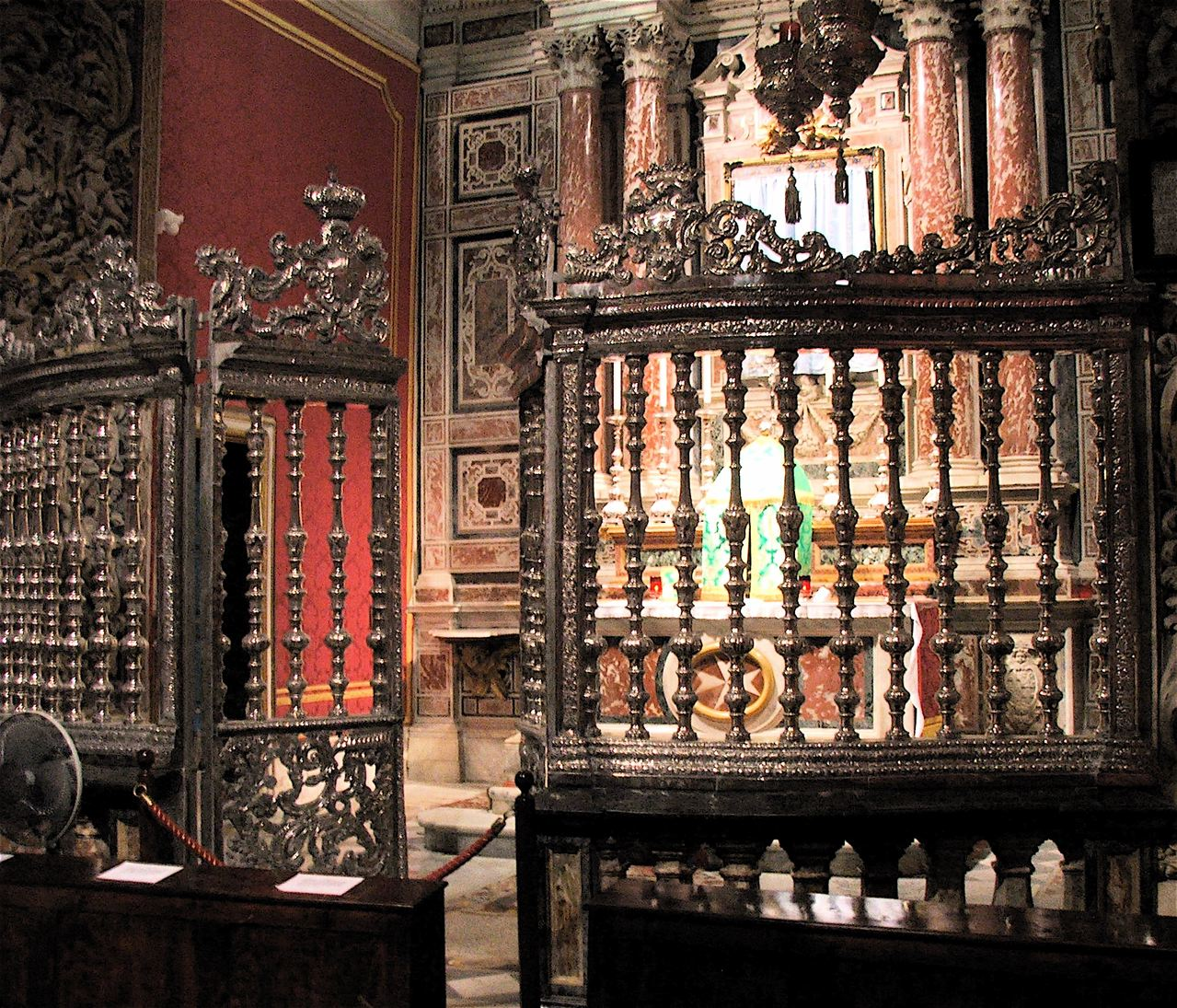 According to persistent tradition this solid silver gate was painted black by the Maltese so that the ransacking French troops who had attacked and invaded Malta in 1798 would not tear it down and turn it into silver bullion ending the same way as much of the silver and gold which the French either sold by auction to the Maltese or melted down and took with them to use for paying their troops. Unfortunately much of the French Naval vessels were sunk in the attack on them by the British Navy at Aboukir Bay, the silver and gold bullion might still be buried in the muddy Aboukir Bay for someone to unearth. Napoleon’s appointed administrator General Vabuois stopped short of despoiling the churches not belonging to the Order of St John which he had deposed, out of fear of a public uprising. In fact as soon as he sent troops to commandeer the Franciscan Church in Rabat and the Carmelite Church in Mdina he faced an open uprising which bottled up the French in the Three Cities and Valletta while the rest of the island received help from Naples and Britain ending French rule in 1800. - Valletta - MALTA